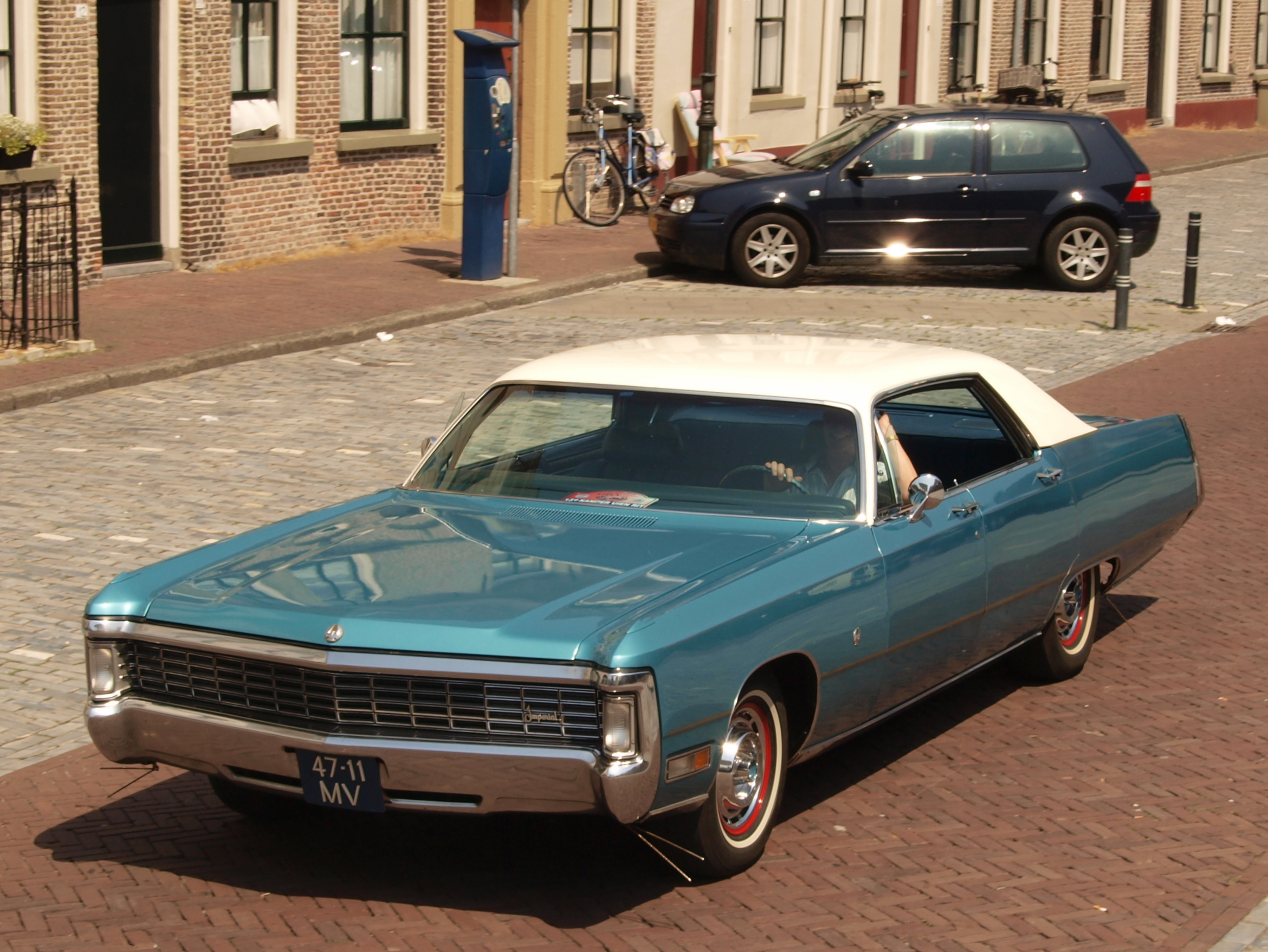 Photographed at Kampen, The Netherlands. OLYMPUS DIGITAL CAMERA